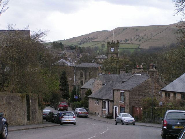 Hayfield from the north Looking SSE down Market Street to the Parish Church of St. Matthew. In the background is the Phoside ridge.